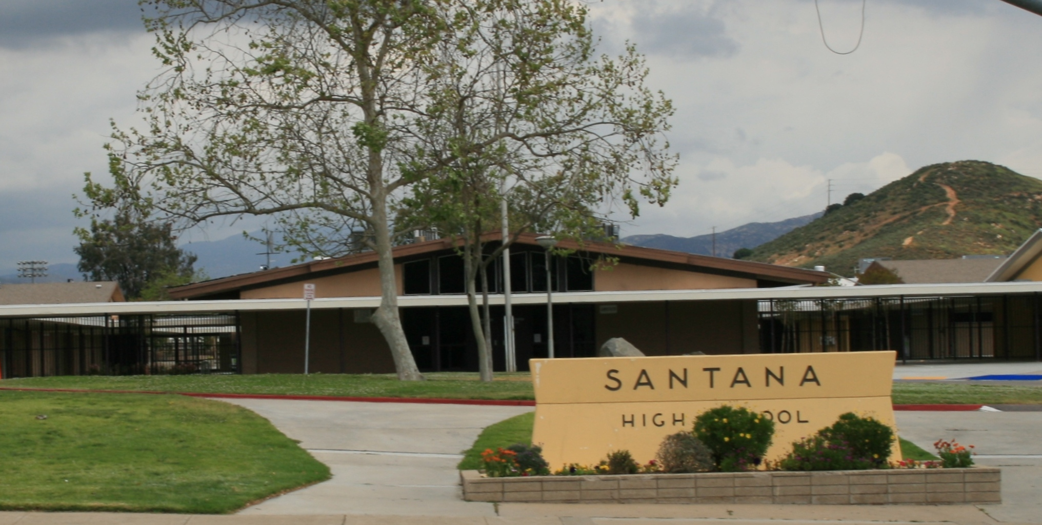 Santana High School - Santee, California - April 10, 2009